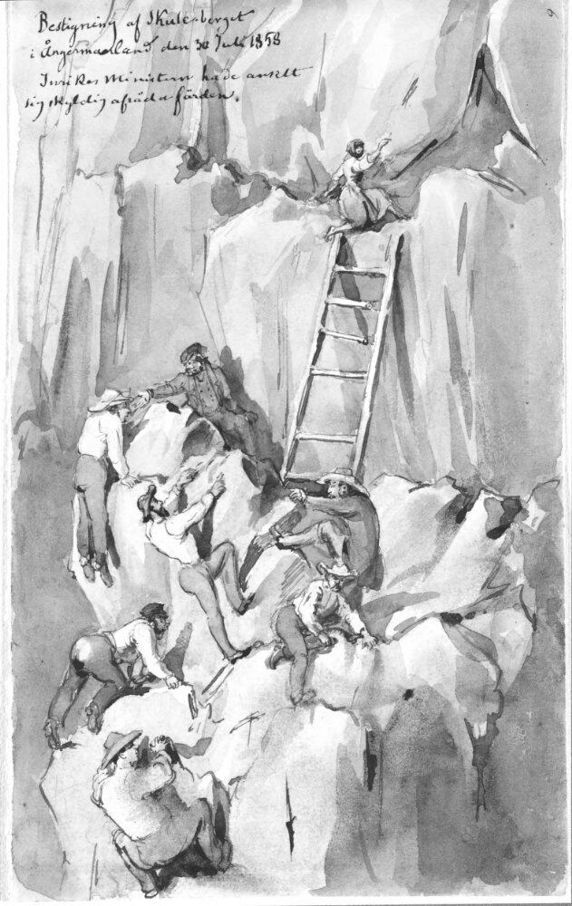 The ascent of Skuleberget, sketch by Fritz von Dardel